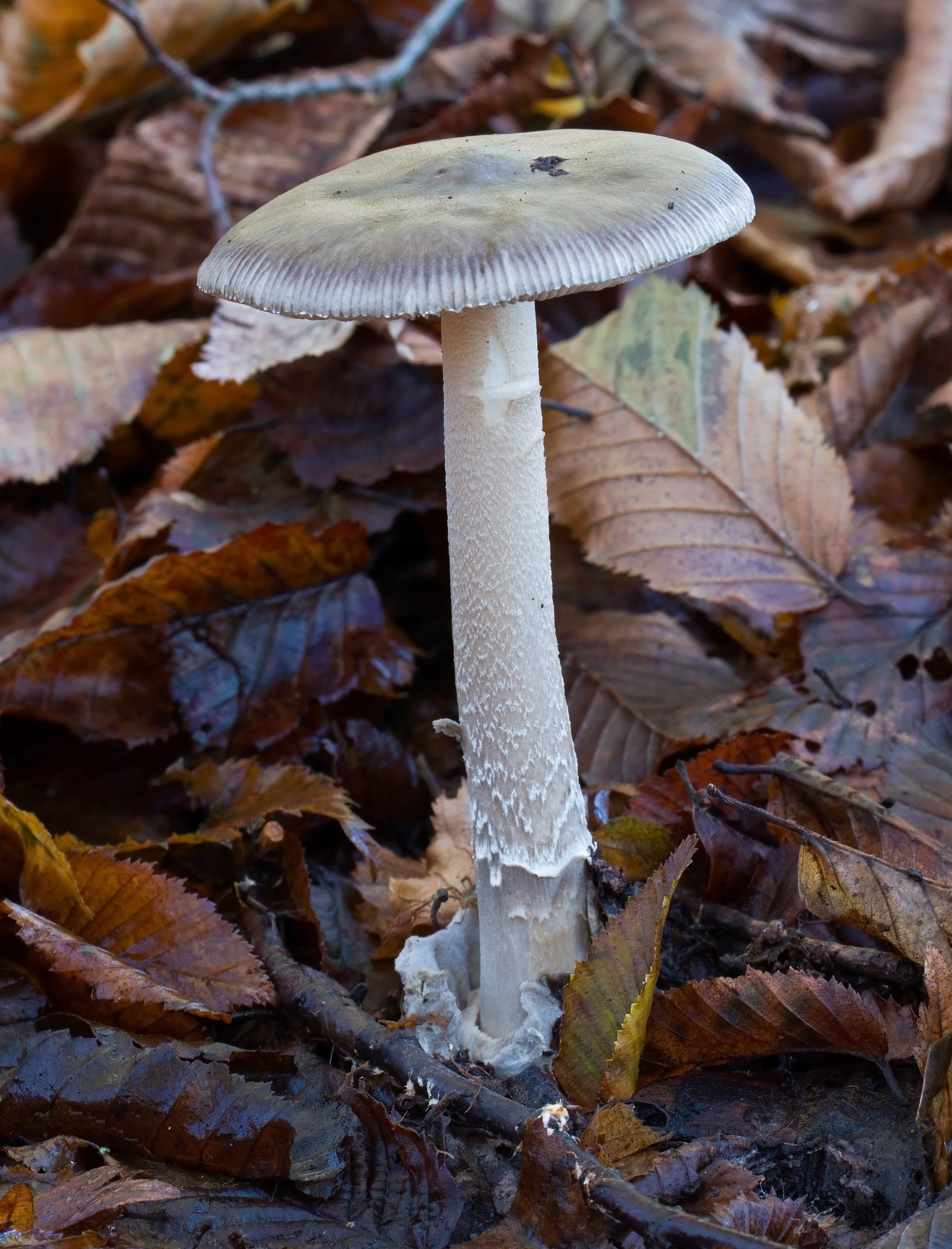 Amanita vaginata, Grisette, taken in Wormley Wood, Hertfordshire, UK.